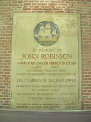 The Memorial to Pastor John Robinson at the Pieterskerk, Netherlands. The tablet was placed in 1920 by the Mayflower Society of America commemorating the 300th anniversary of the Mayflower's sailing in 1620, "In memory of John Robinson, Pastor of the English Church in Leyden 1609–1625". Photo date July 16, 2005.